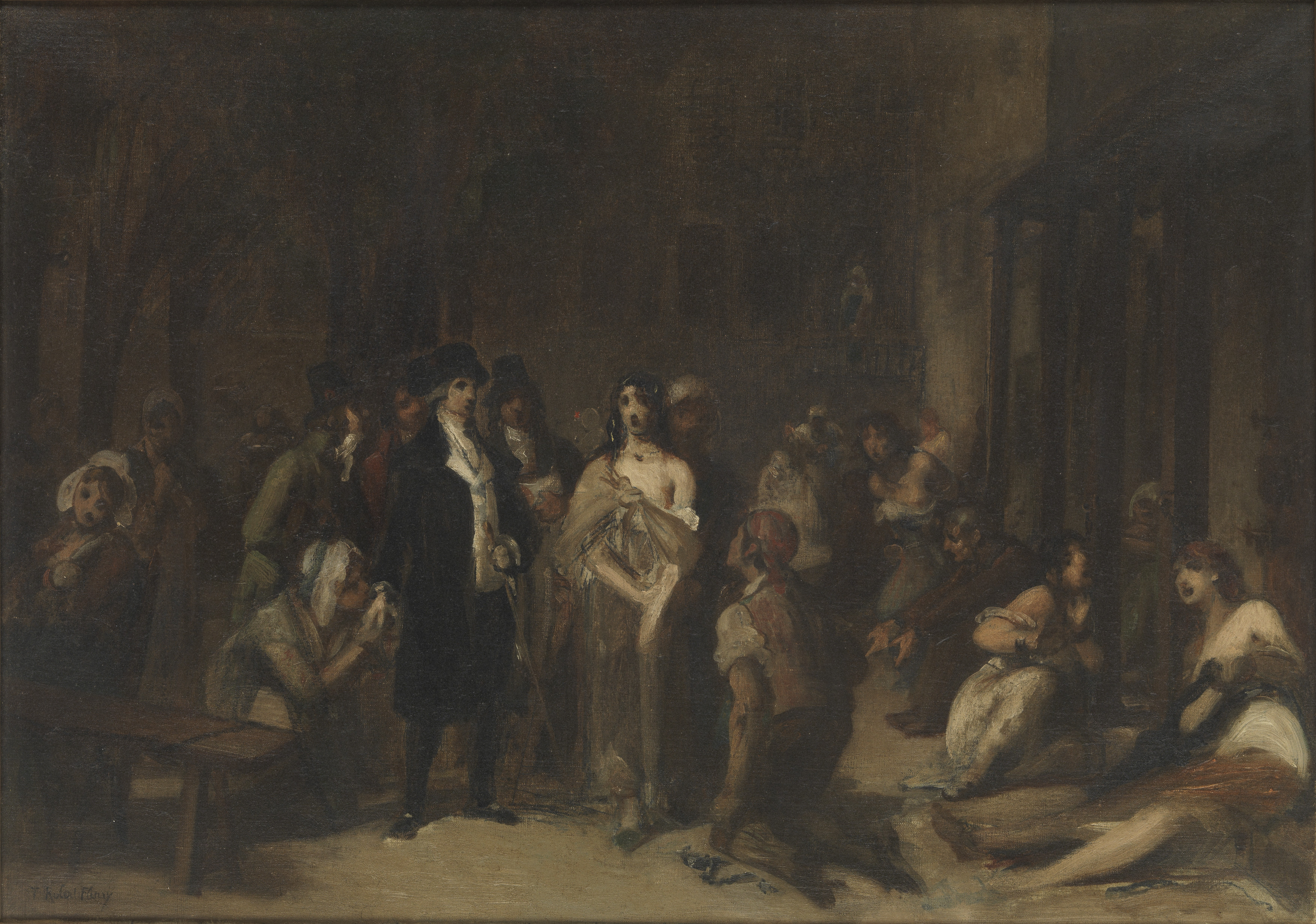 Pinel freeing the insane from their chains. Medical Photographic Library Keywords: Tony Robert-Fleury; Philippe Pinel